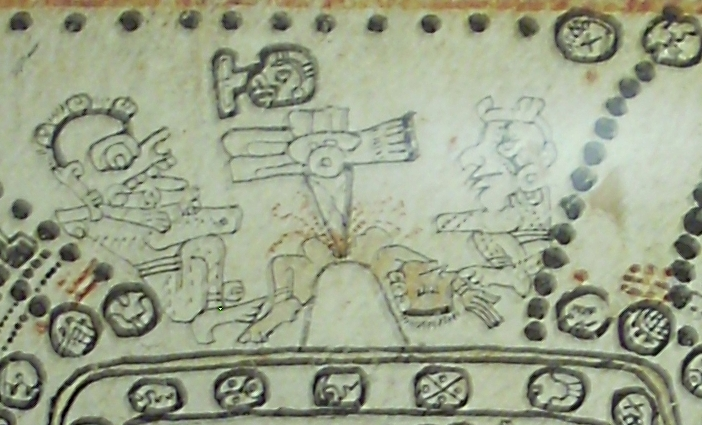 Scene of human sacrifice by heart extraction on p76 of the replica of the Madrid Codex on display at the Museo de América in Madrid.